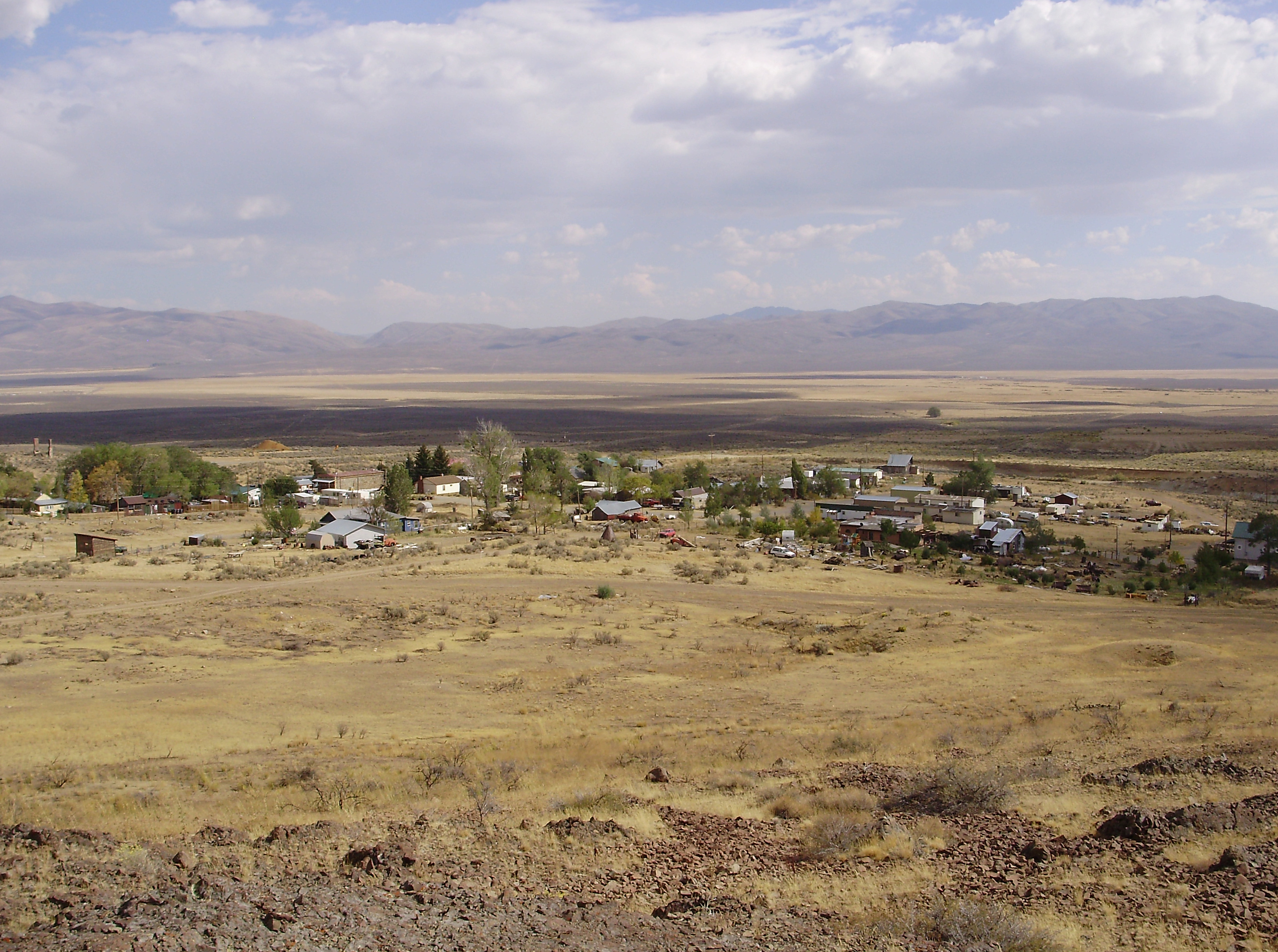 View of Tuscarora, Nevada